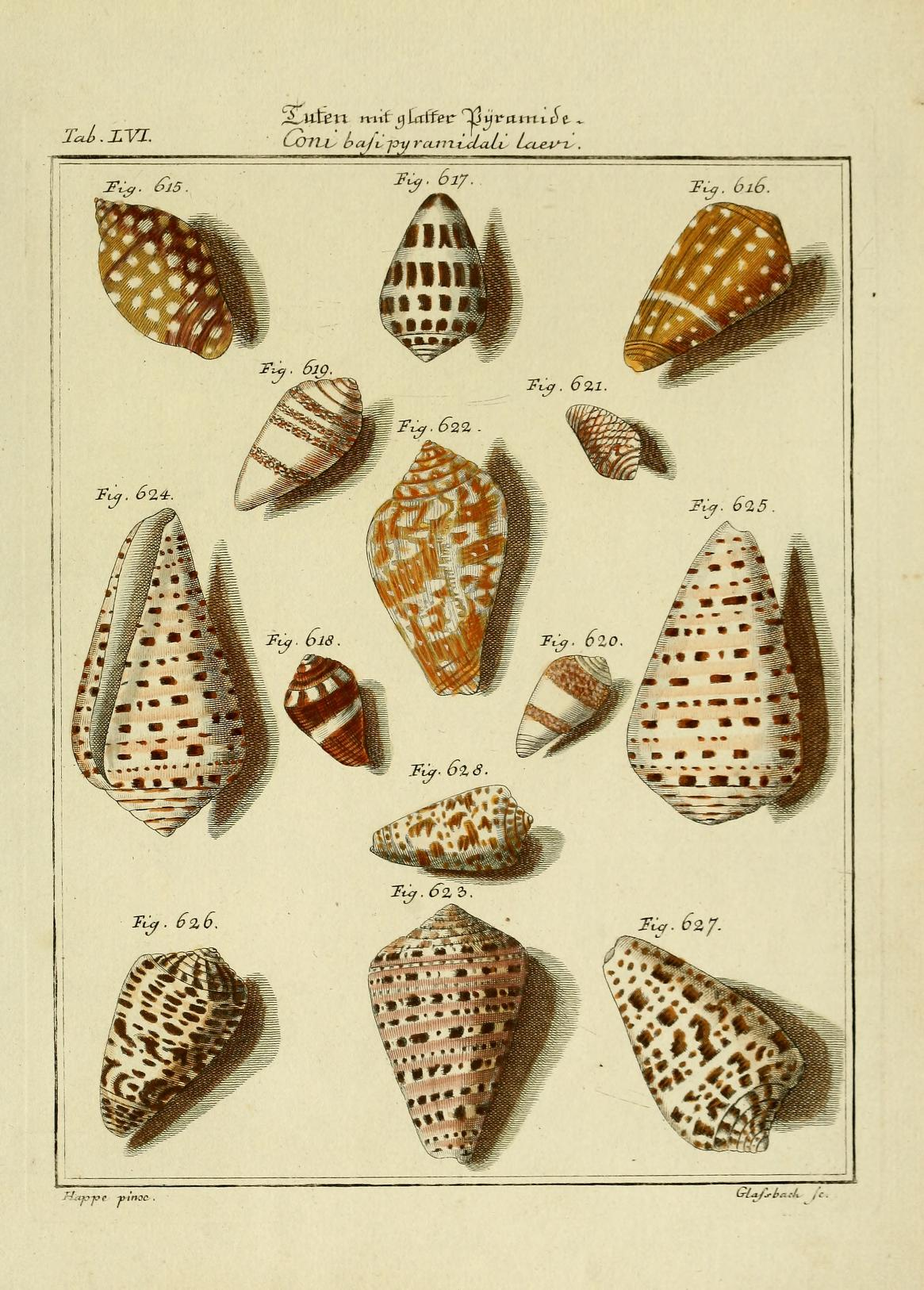 As file